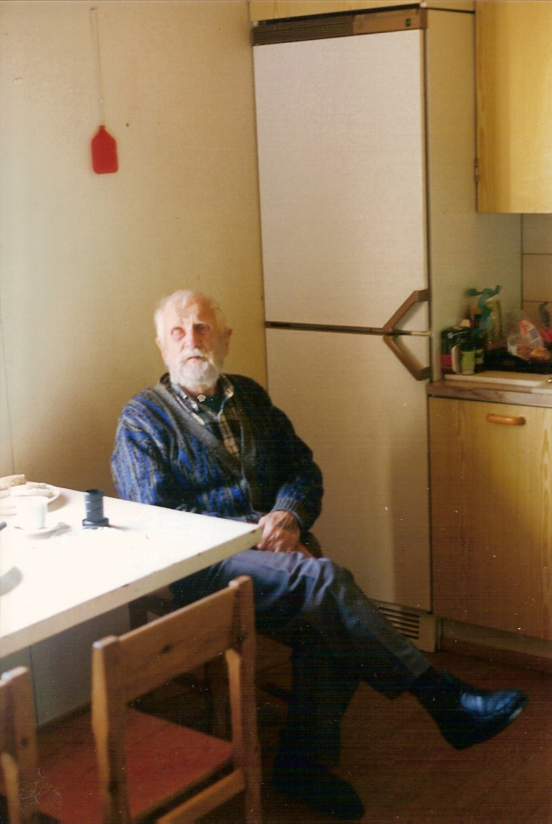 Aarne Arvonen (1897–2009), the oldest Finnish man